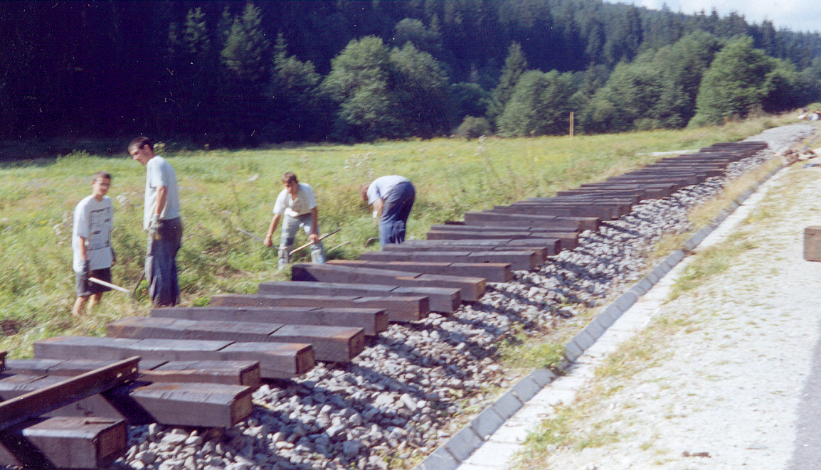 Building railroad ČHŽ to Vydrovská dolina. Complete reconstruction by entusiasts. Approx. year 2000.